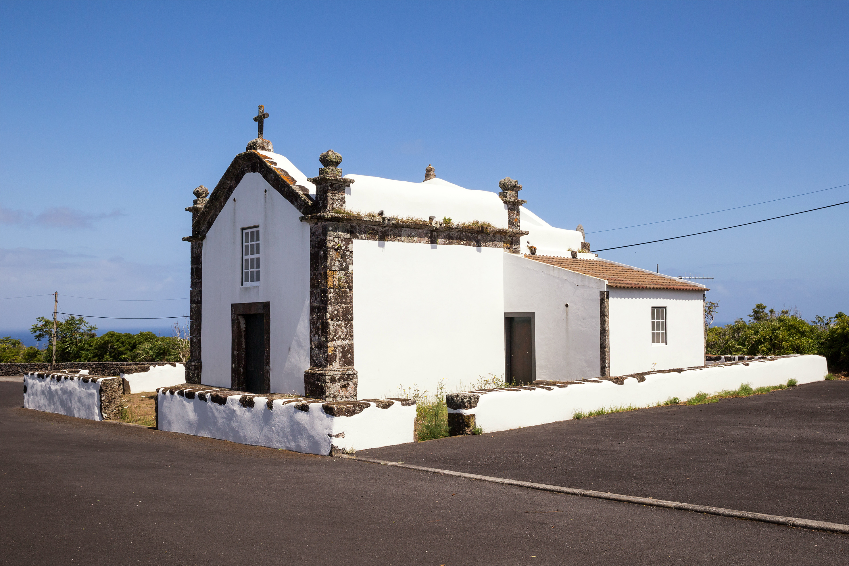 Ermida de São Salvador, small chapel on the mountain Monte de Nossa Senhora da Ajuda, Graciosa Island, Azores